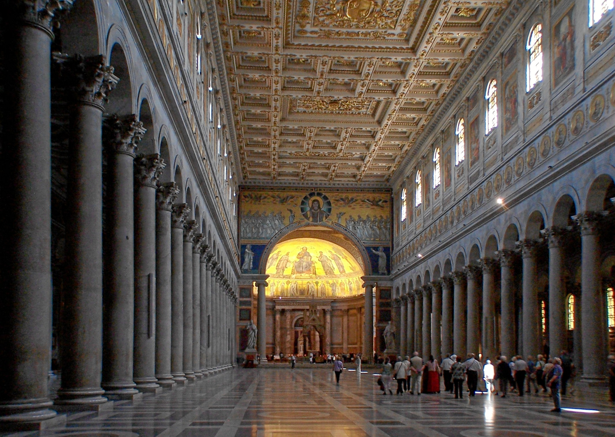 Rom Sankt Paul vor den Mauern (San Paolo fuori le mura), Innenansicht 1900s. Today.